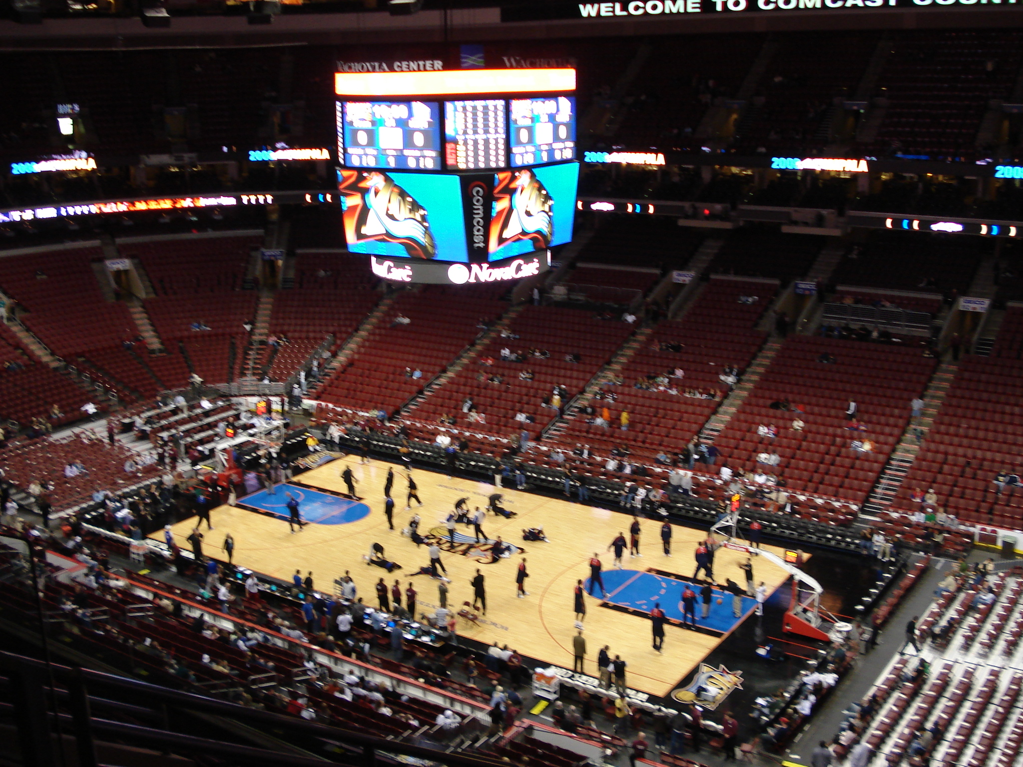 Wachovia Center Interior, prior to 10/12/07 pre-season game between the 76ers and Nets